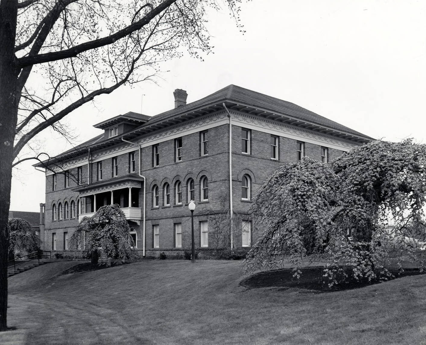 Exterior view of Ridenbaugh Hall in 1915.